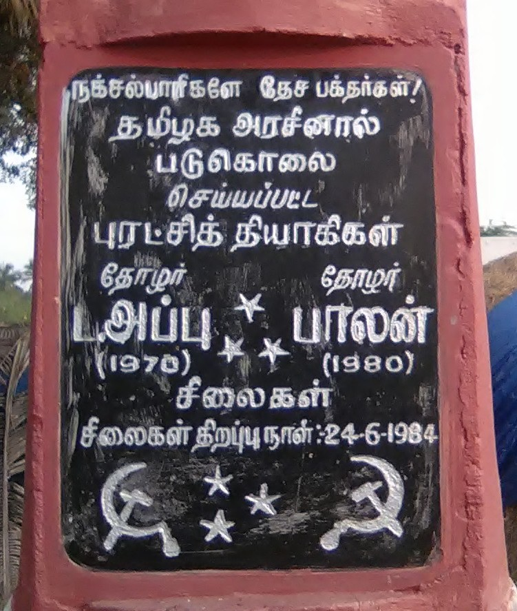 தருமபுரி மாவட்டத்தில் செயல்பட்டுவந்து தமிழக காவல் துறையினரால் கொல்லப்பட்ட நக்சலைட் தலைவர்களான பாலன, அப்பு ஆகியோரின் நினைவுச்சின்னத்தில் பதிக்கப்பட்டுள்ள கல்வெட்டு